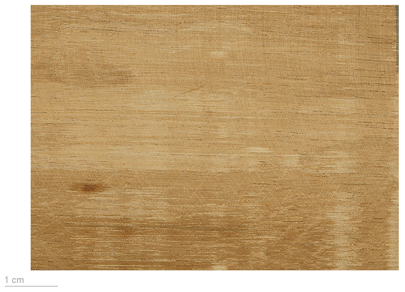 Light Bossé , wood